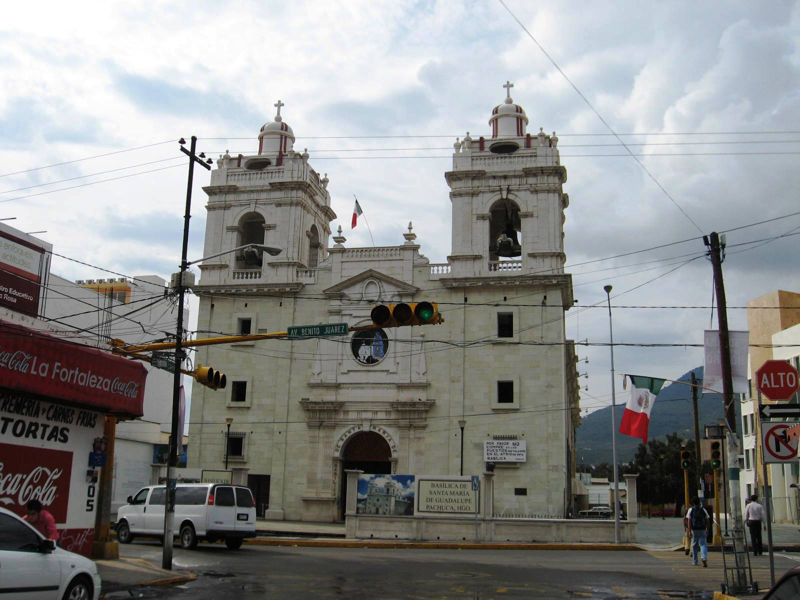 Bascilica of Santa Maria de Guadalupe on Avenida Juarez in Pachuca Mexico